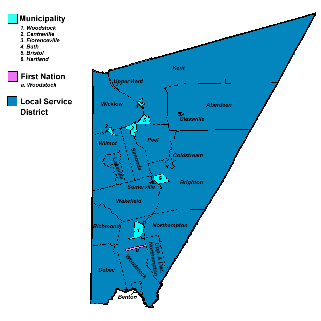 Municipal units of Carleton County, New Brunswick. After files from Service New Brunswick